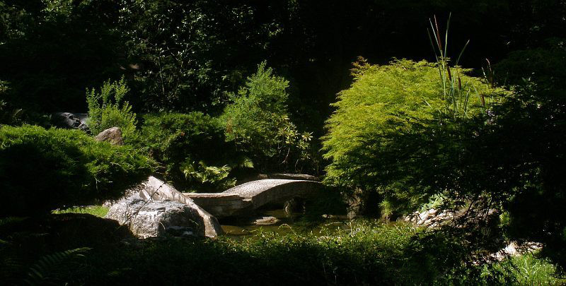 Stone bridge in the japanese garden (Takasaki park) in the former gardens of the Viennese International Garden Exhibition 1974 (WIG74), now Kurpark Oberlaa, 1100 Vienna.